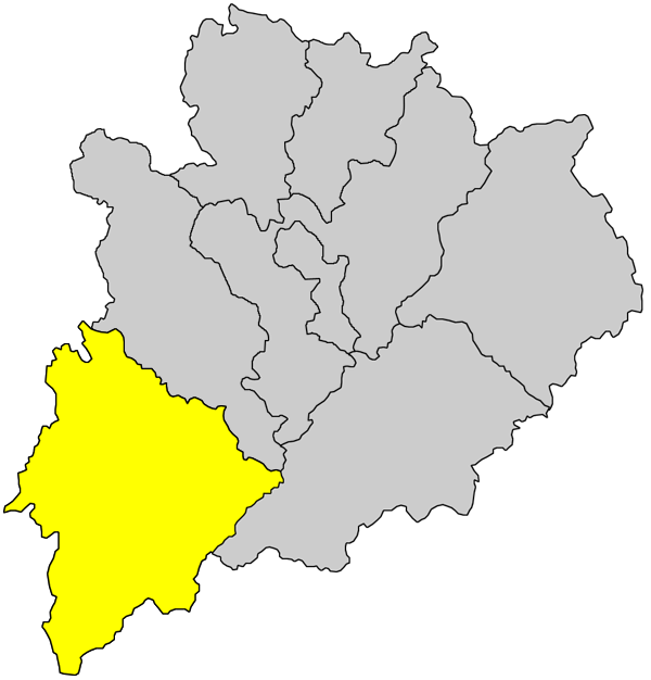 Location of Wuhua County, Meizhou